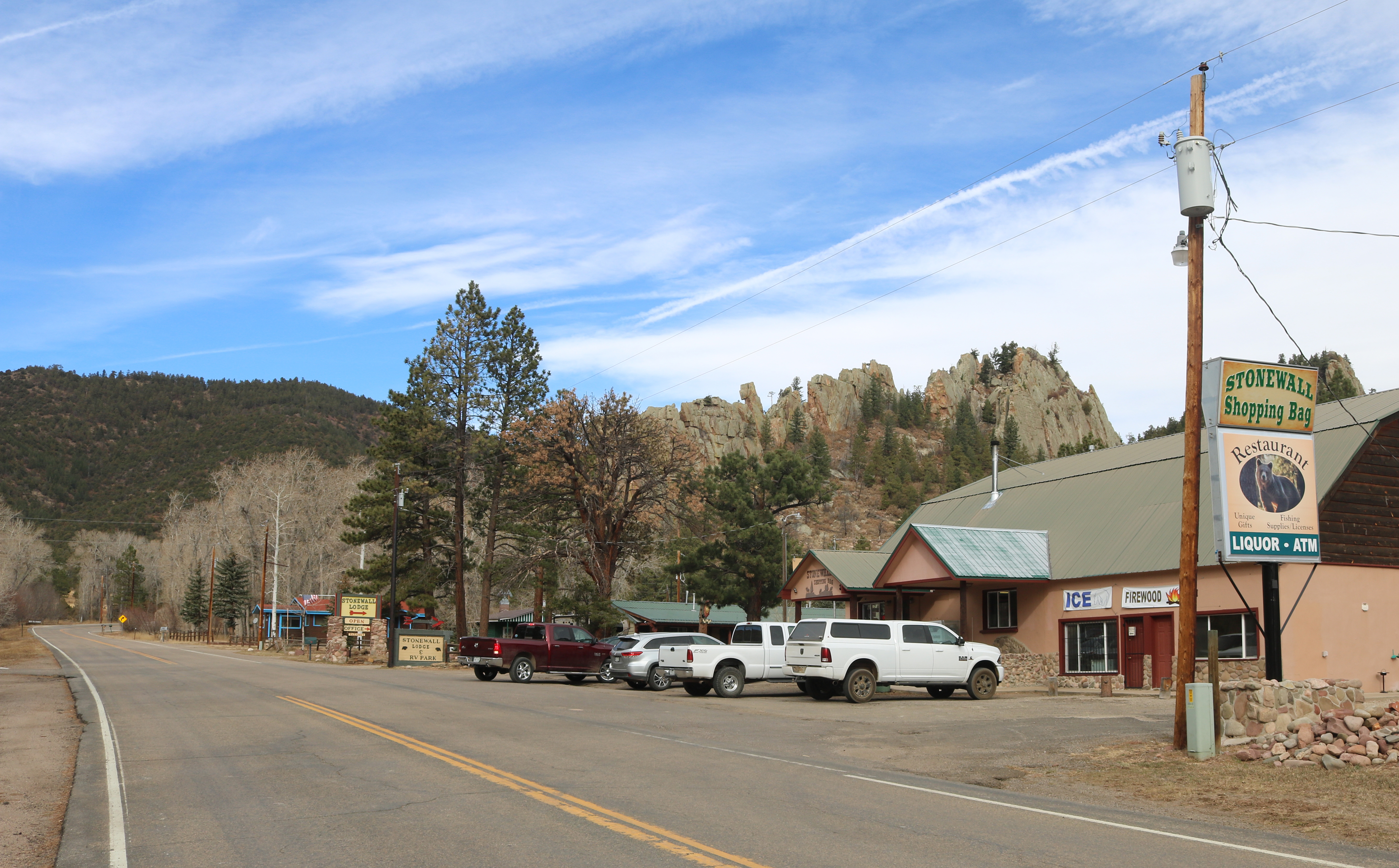 A view of Stonewall Gap, Colorado in Las Animas County. Colorado State Highway 12 is the road in the picture, and part of the Dakota Wall is visible behind and above the store.